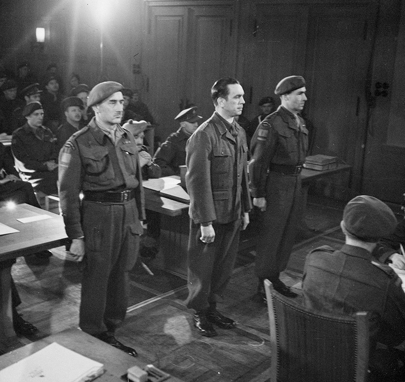 Kurt Meyer at trial for war crimes in Aurich, Germany, December 1945. Photo by Royal Army (UK).